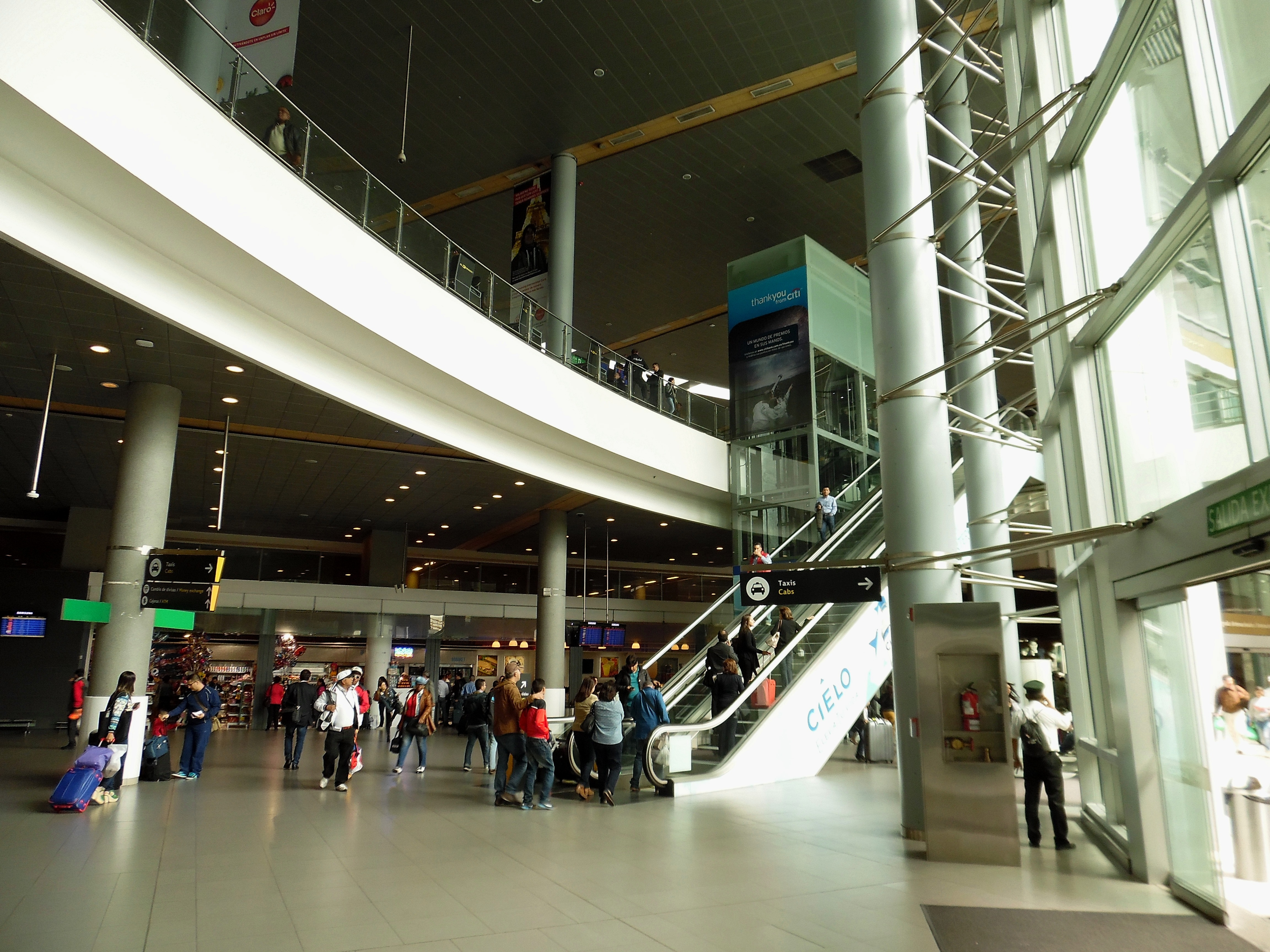 Bogotá